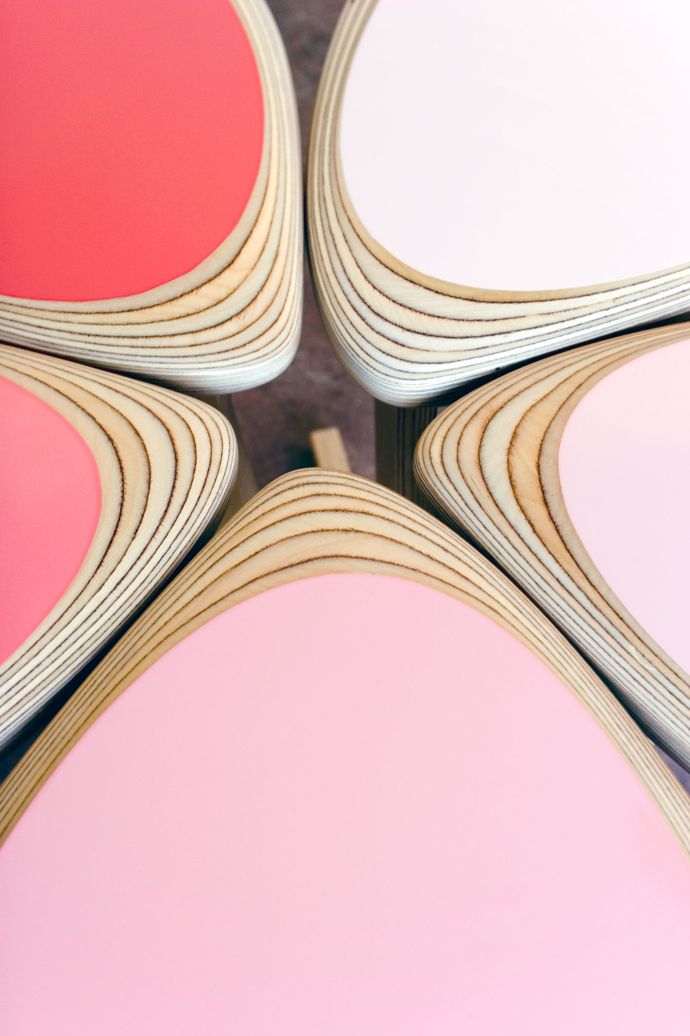 Petal5 Stacking Stools, Designer: 4-pli, Baltic birch plywood finished with low-VOC milk paint.